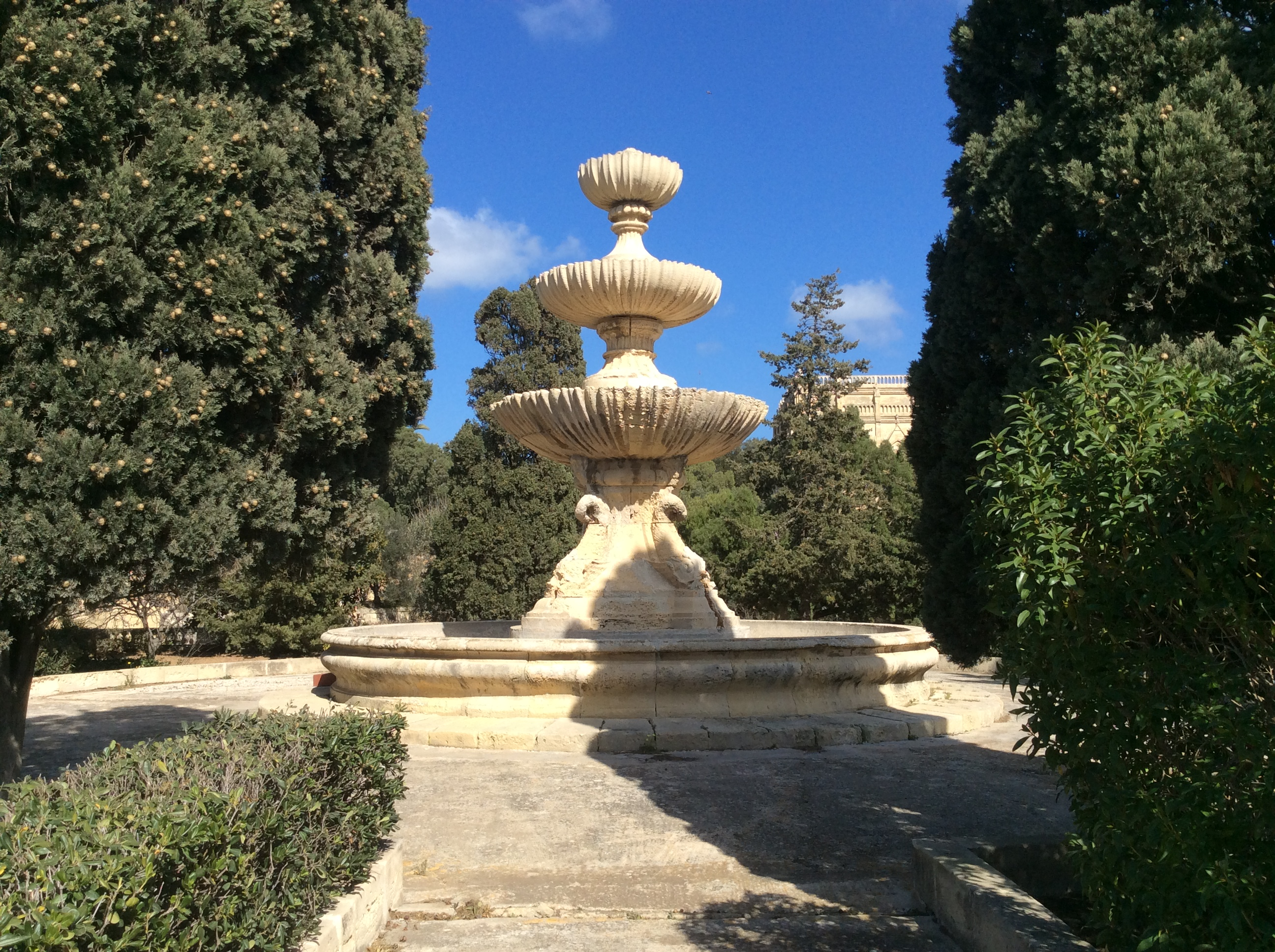 Wignacourt Fountain - Floriana